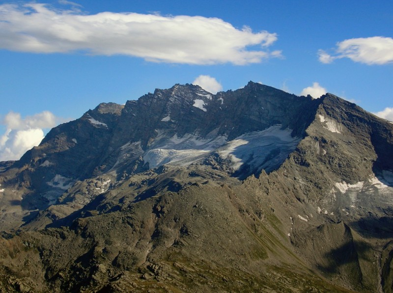 Levanna (3619 m) seen from the Col di Nivolet Picture taken and edited by user Idefix august 2005